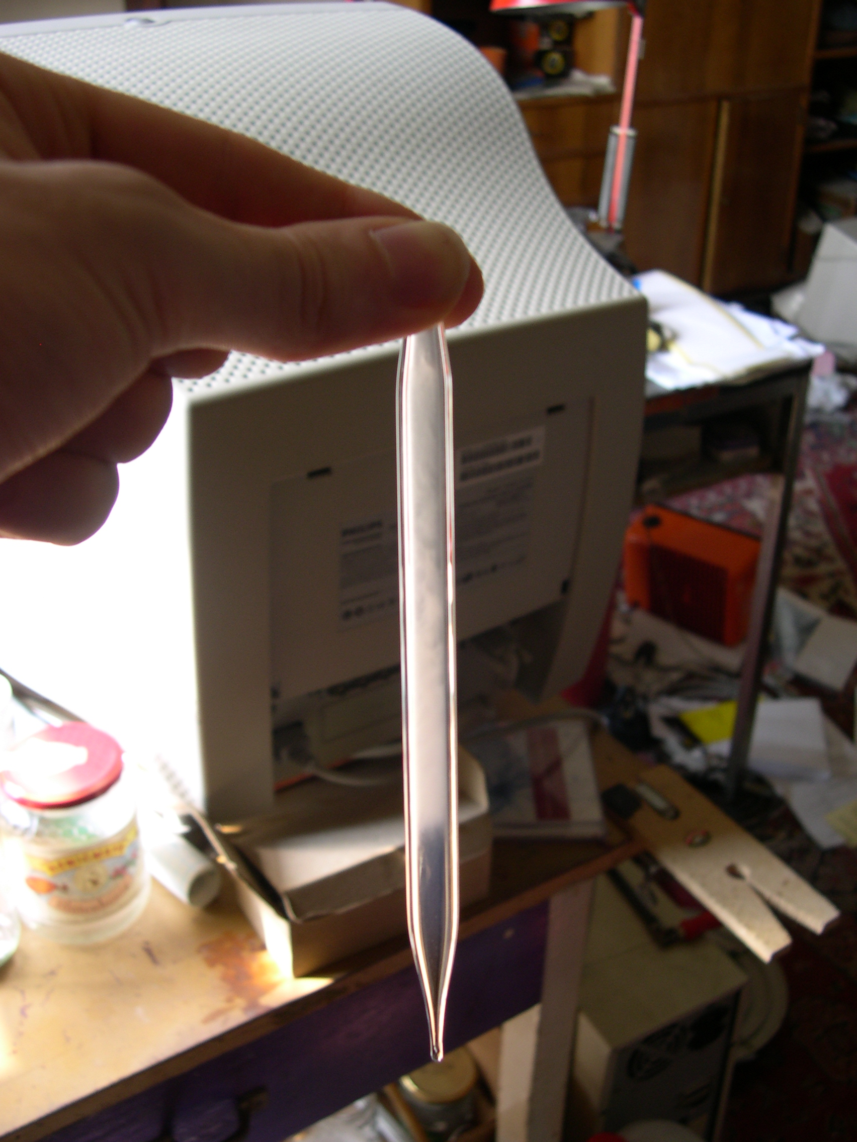 carbon dioxide forming a fog when cooling from supercritical to critical temperature